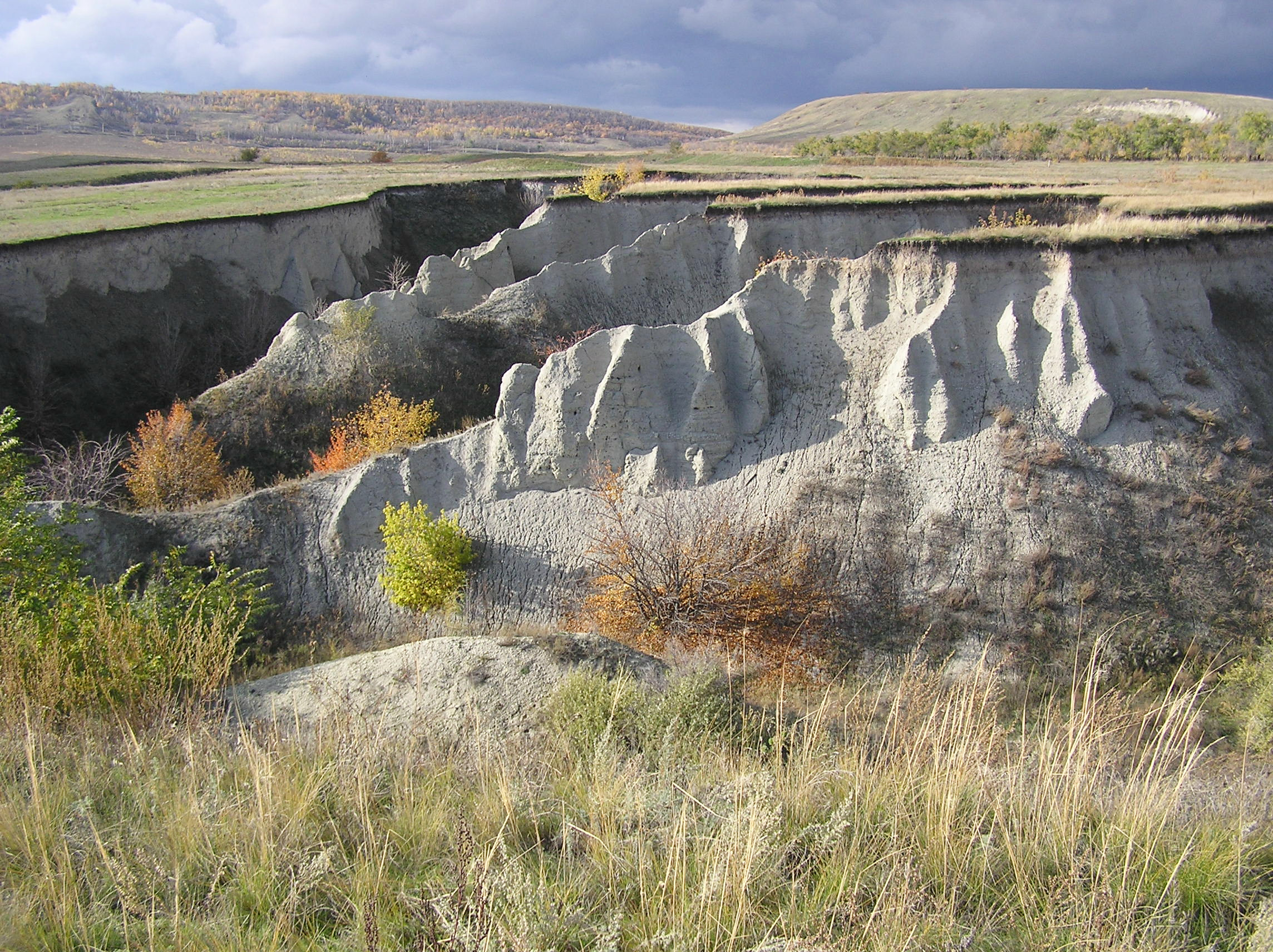 A gully. Regional Nature Monument "Budanova Gora". Vicinity of Saratov City, Russia.